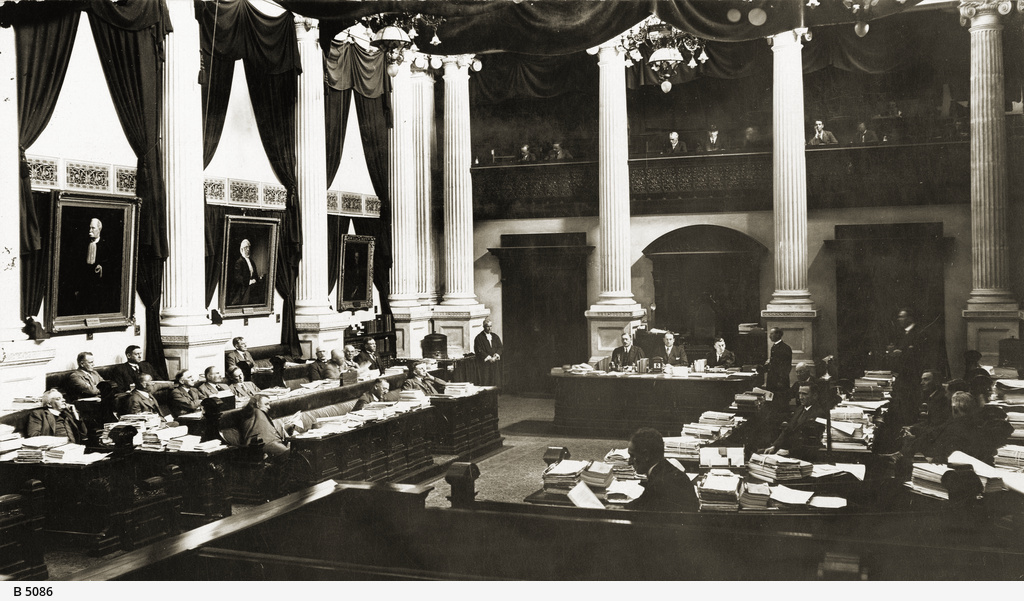 South Australian House of Assembly circa 1928.